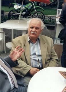 Szilard Biernaczky